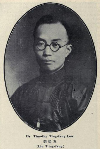 Liu Tingfang (1891-1947)